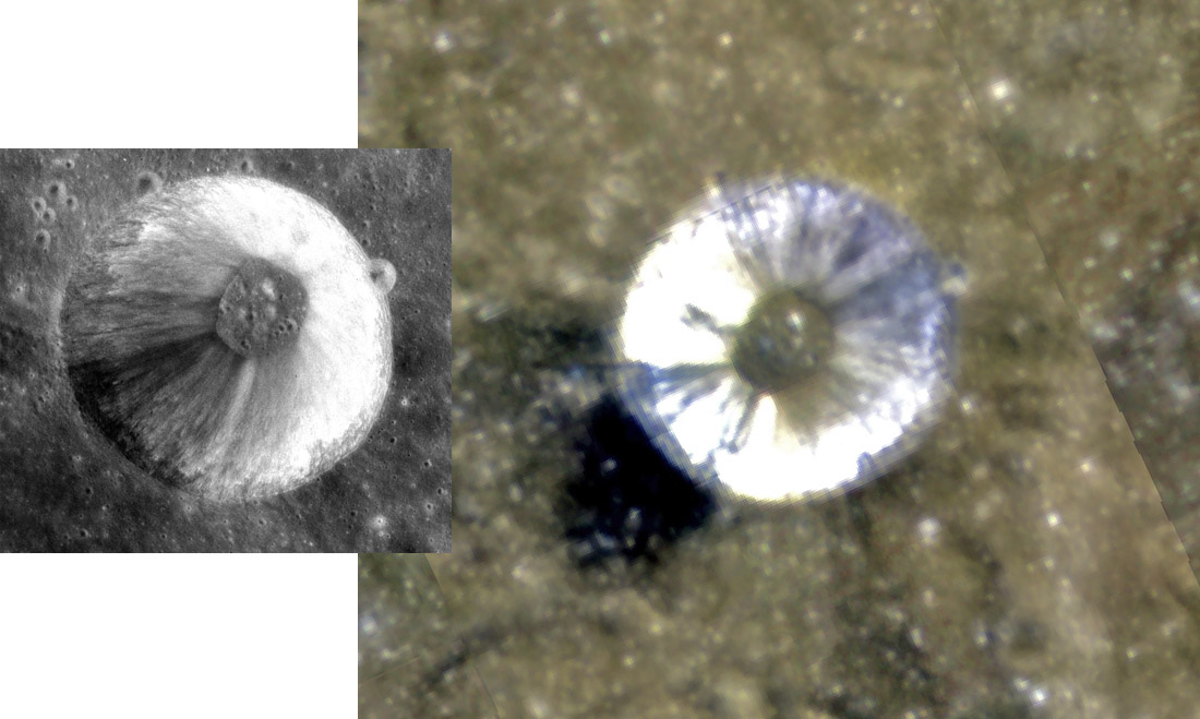 Langrenus M satellite crater. Left image from Apollo 15 Metric frame AS15-M-2103, and right image from Clementine, using USGS Map-A-Planet